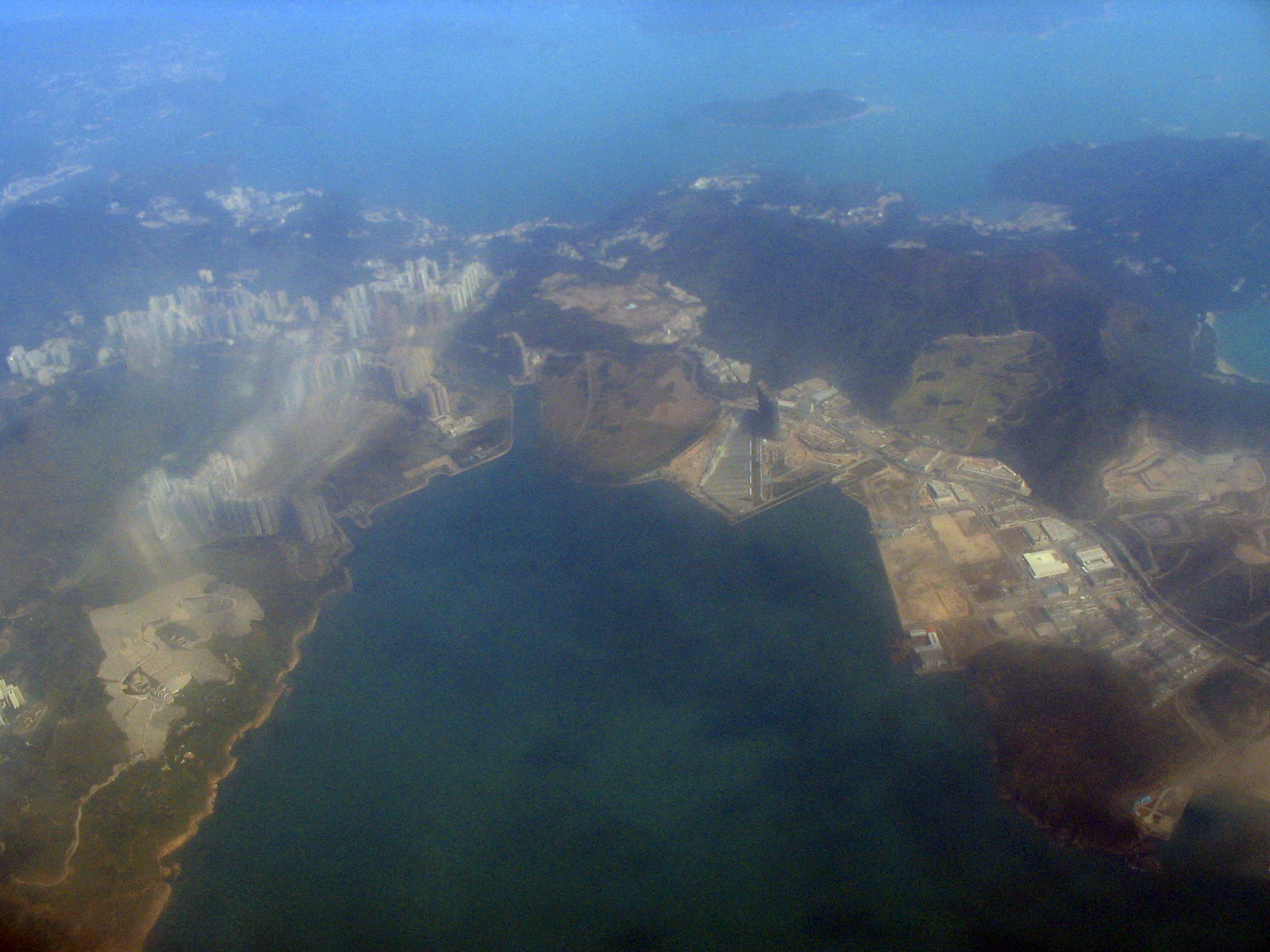 Photo of Tseung Kwan O